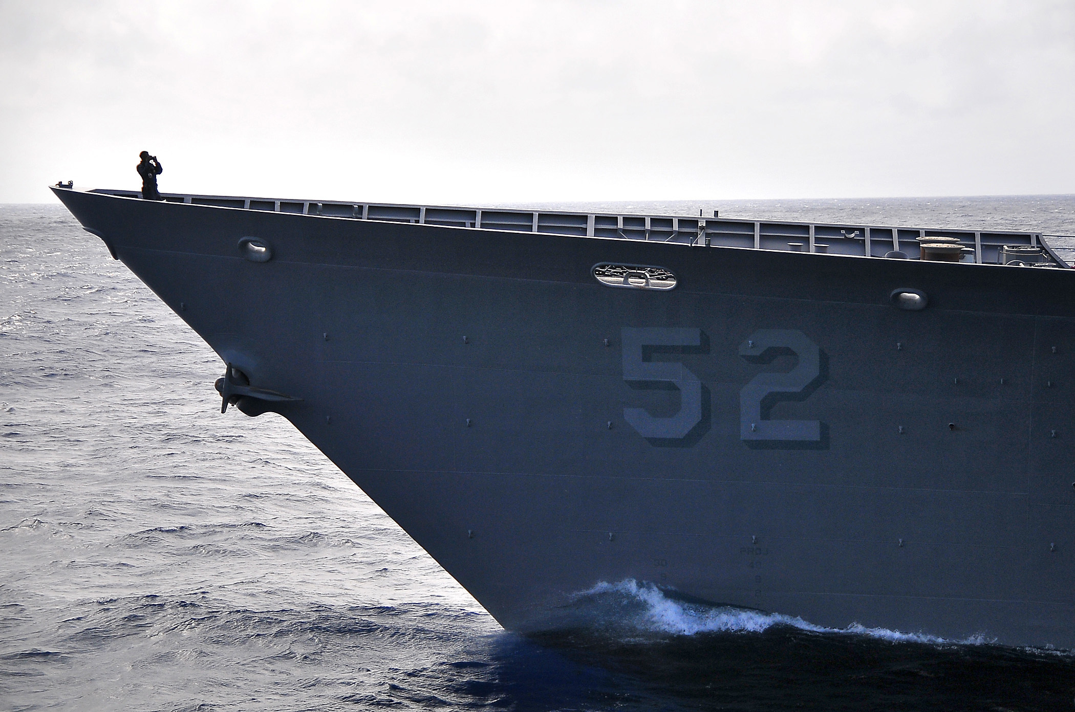 A Sailor aboard the guided-missile cruiser USS Bunker Hill observes a refueling at sea with the aircraft carrier USS Carl Vinson. Bunker Hill and Carl Vinson are currently taking part in Southern Seas 2010 as part of a scheduled homeport shift. Unit: Navy Media Content Services DVIDS Tags: Earthquake Assistance; navy; Haiti; Haiti Relief; humanitarian assistance; Operation Unified Response; U.S. Navy